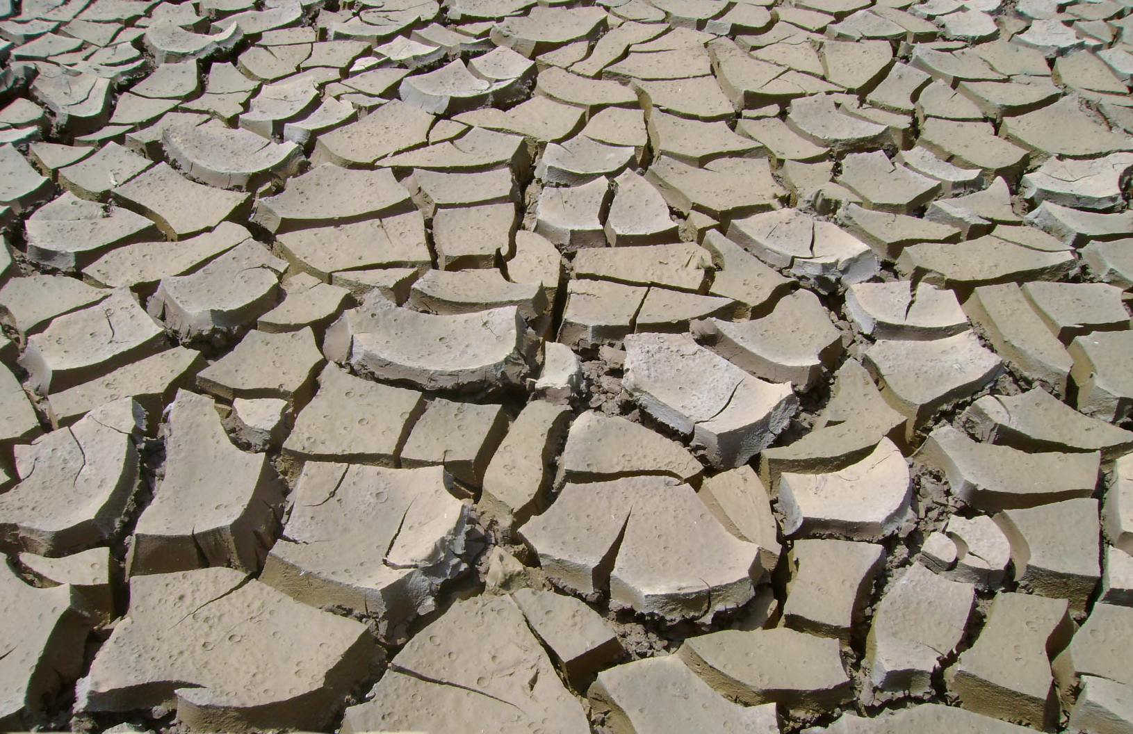 thirsty soil , Agriculture in Israel